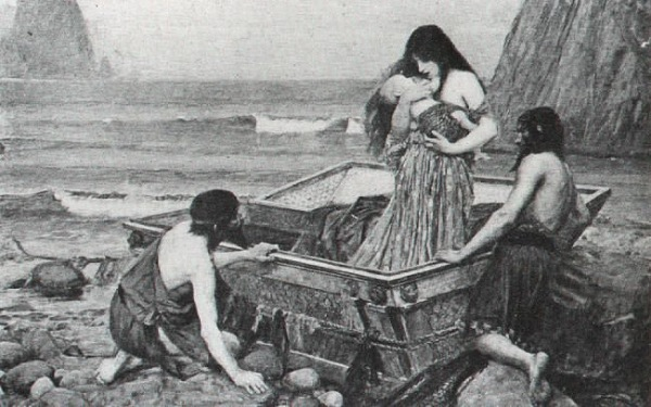 The original was stolen in 1947 and only a black and white photo survives.